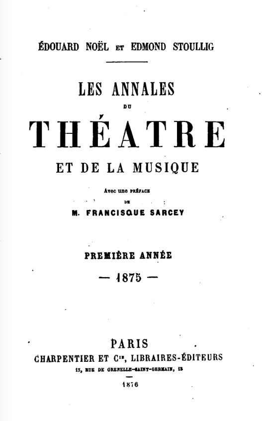 Title page of Les Annales du Théâtre et de la Musique, Année 1875, volume 1